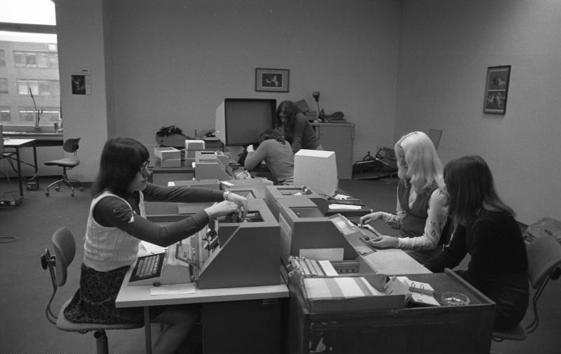 VW-Werk, Wolfsburg Krankenabteilung Information added by Wikimedia users.Keypunch operators at the Volkswagen factory in Wolfsburg, Germany.